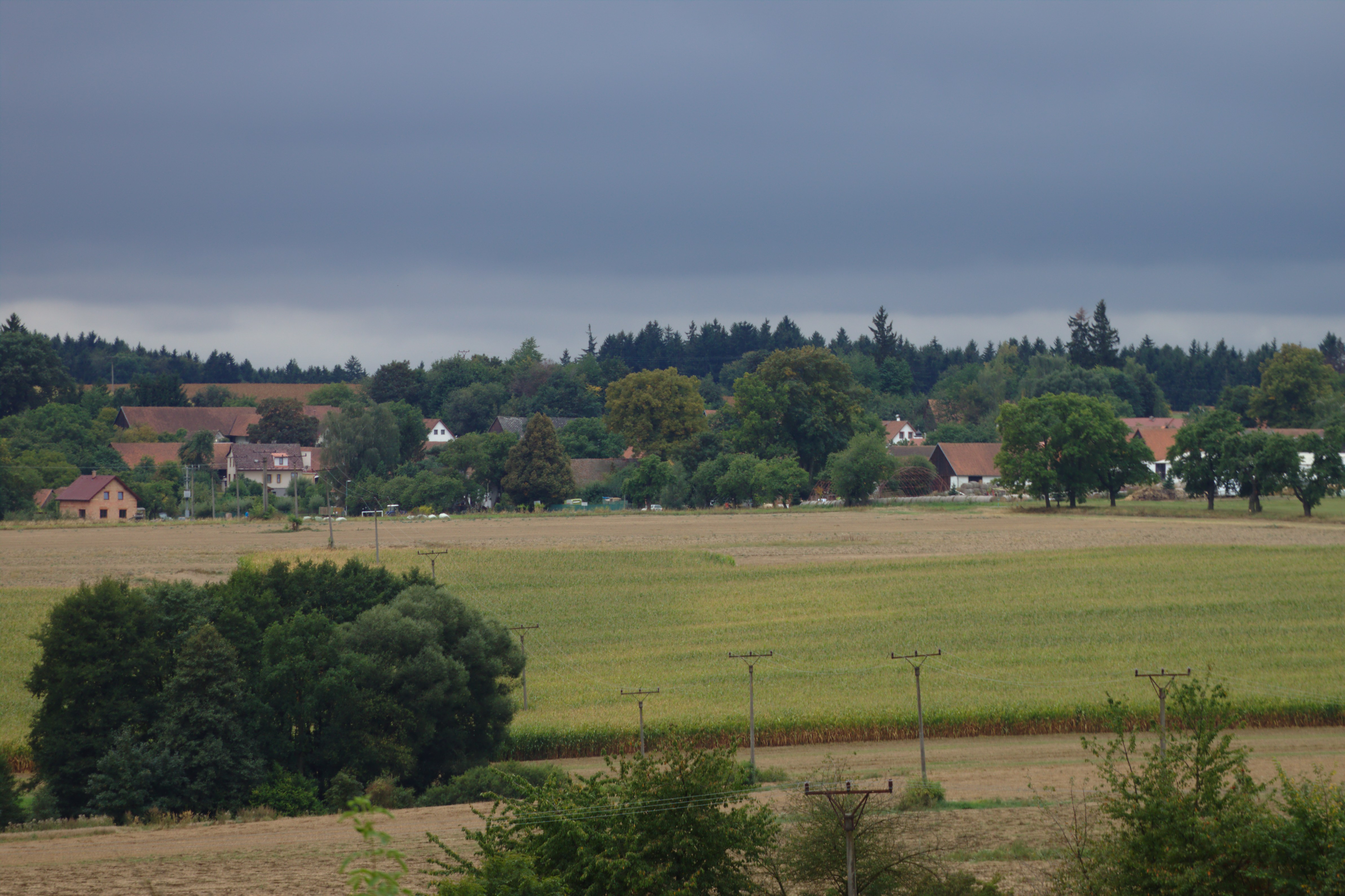 View of the village of Babice, Vysočina Region, CZ